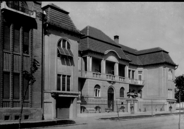 Jewish Hospital in Subotica Српски (ћирилица): Санаторијум ПАРК – касније Јеврејска болница у Суботици